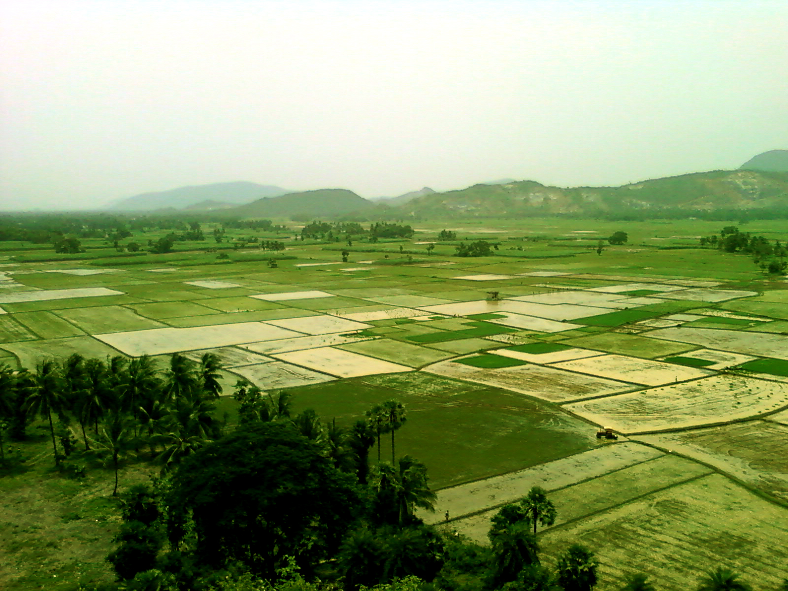 Scenic view of paddy fields from Bojjannakonda hillock at Sankaram, Visakhapatnam district